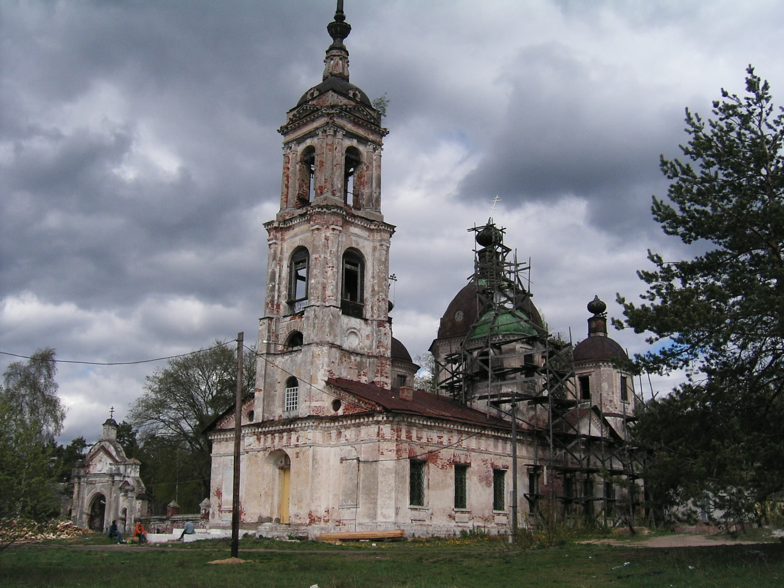 Cathedral in Okhotino